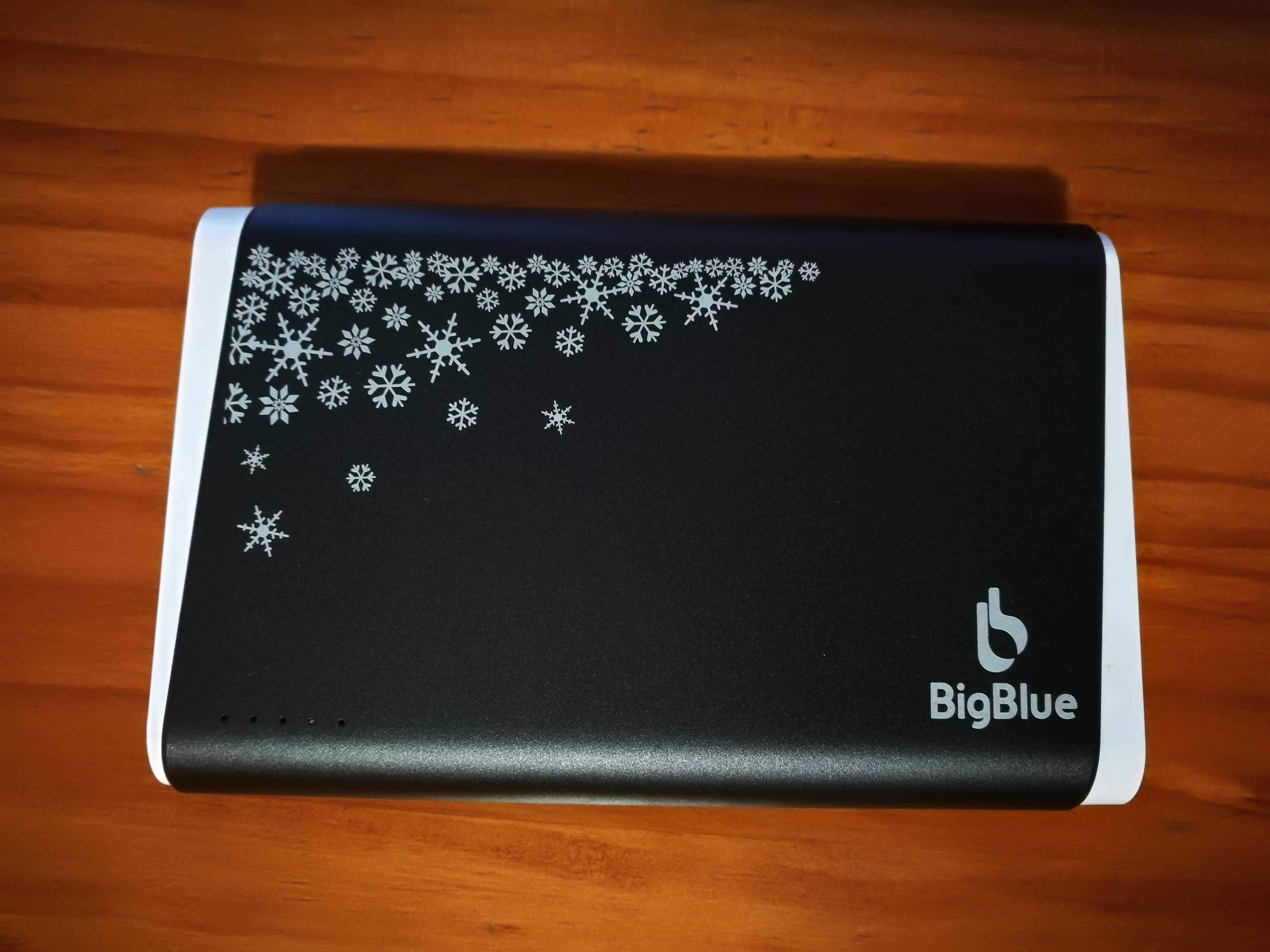 Rechargeable hand warmer and powerbank